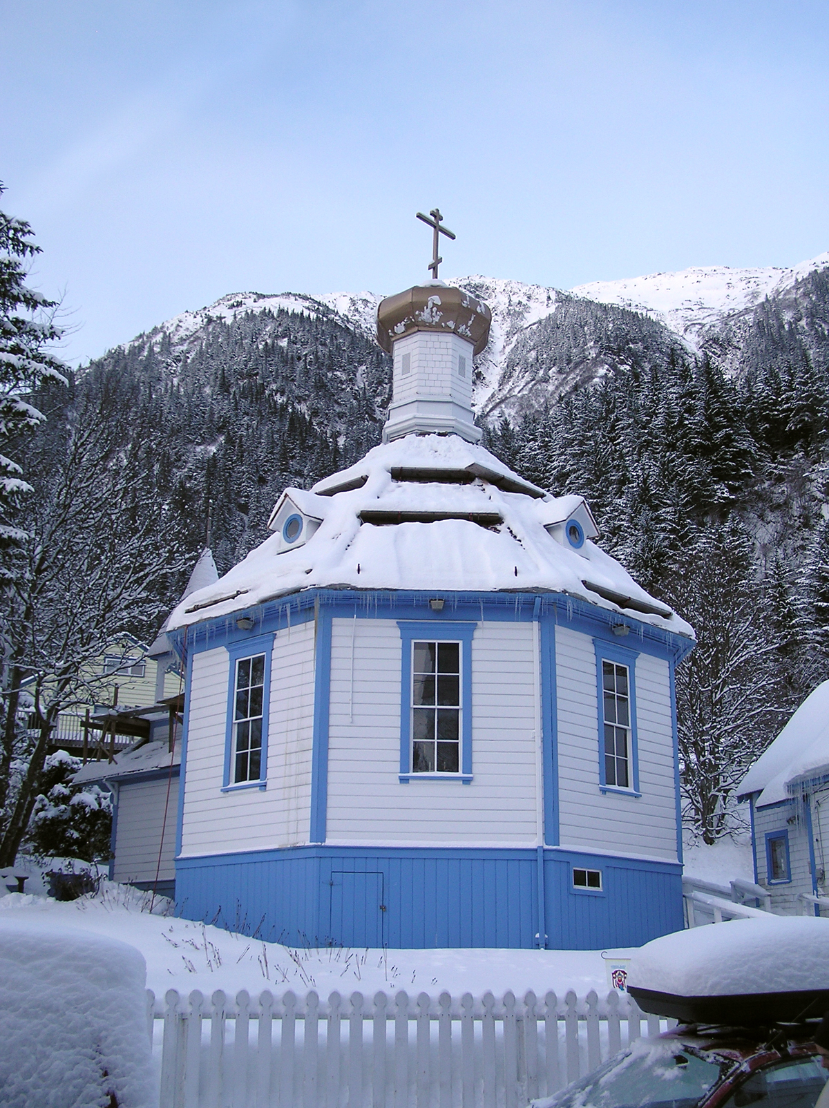 St. Nicholas Russian Orthodox Church